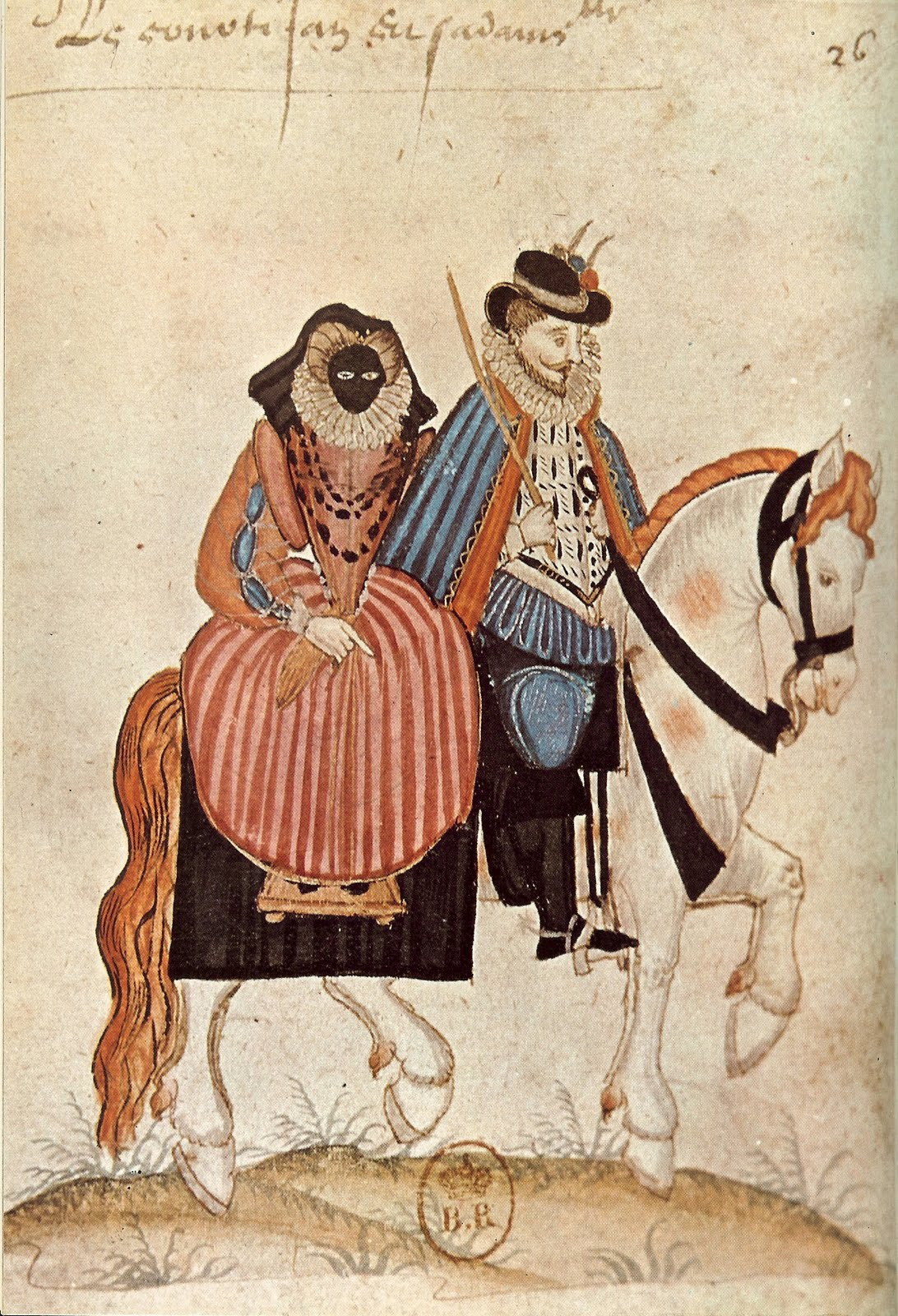 A painting of a man riding a horse with his wife, who is wearing a visard.